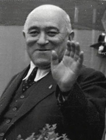 Cropped photograph of Hungarian communist leader, Mátyás Rákosi. Paintbrush applied and shading changed using Photo Editor at